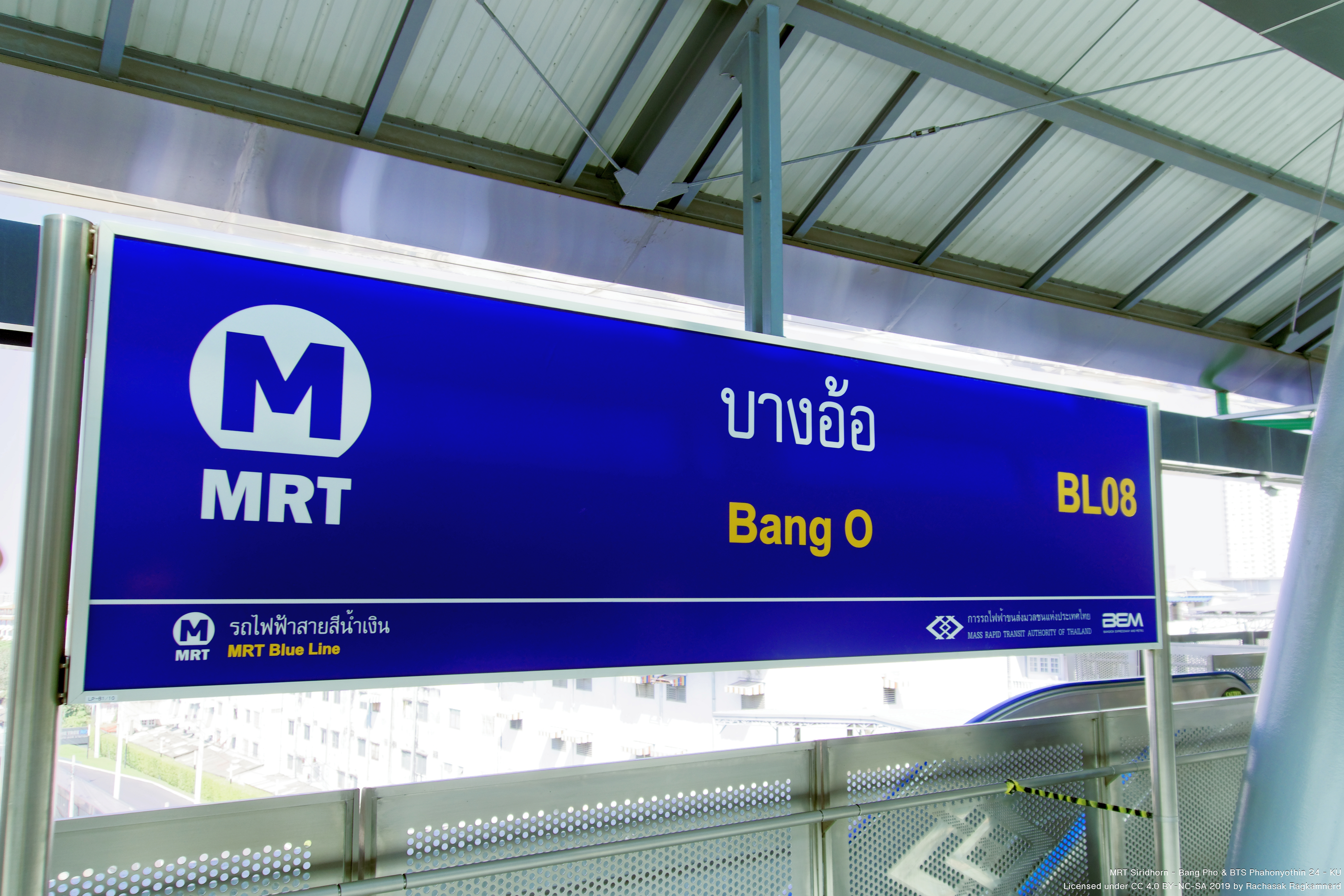 MRT Bang O - Traditional station sign